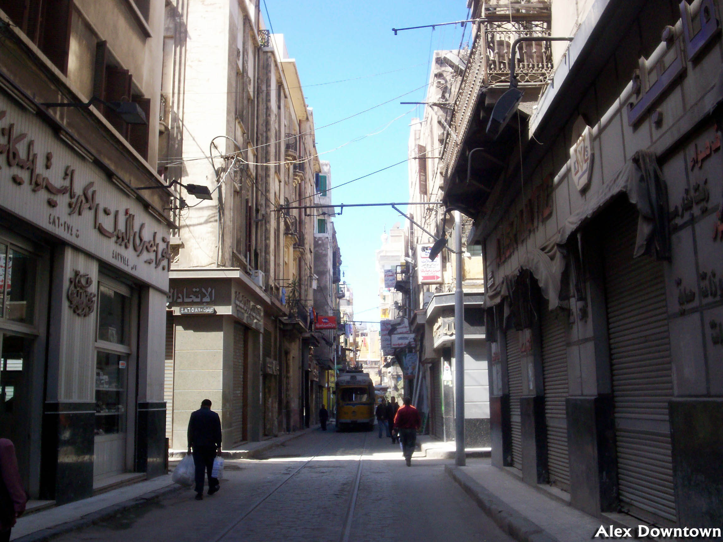 A view from Alexandria downtown